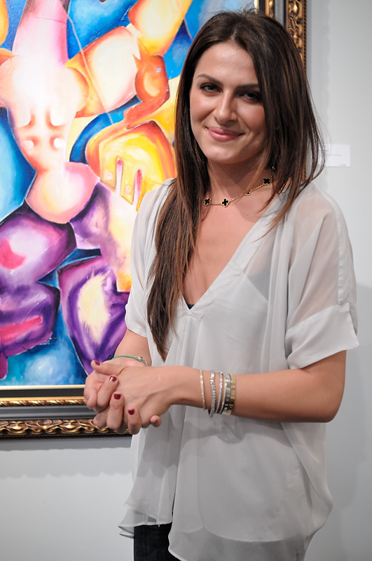 Alexandra Nechita photographed at Off the Wall Gallery.